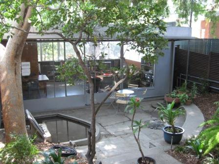 Neutra House: view across courtyard of garden house. 2300 Silver Lake Boulevard, Los Angeles, California